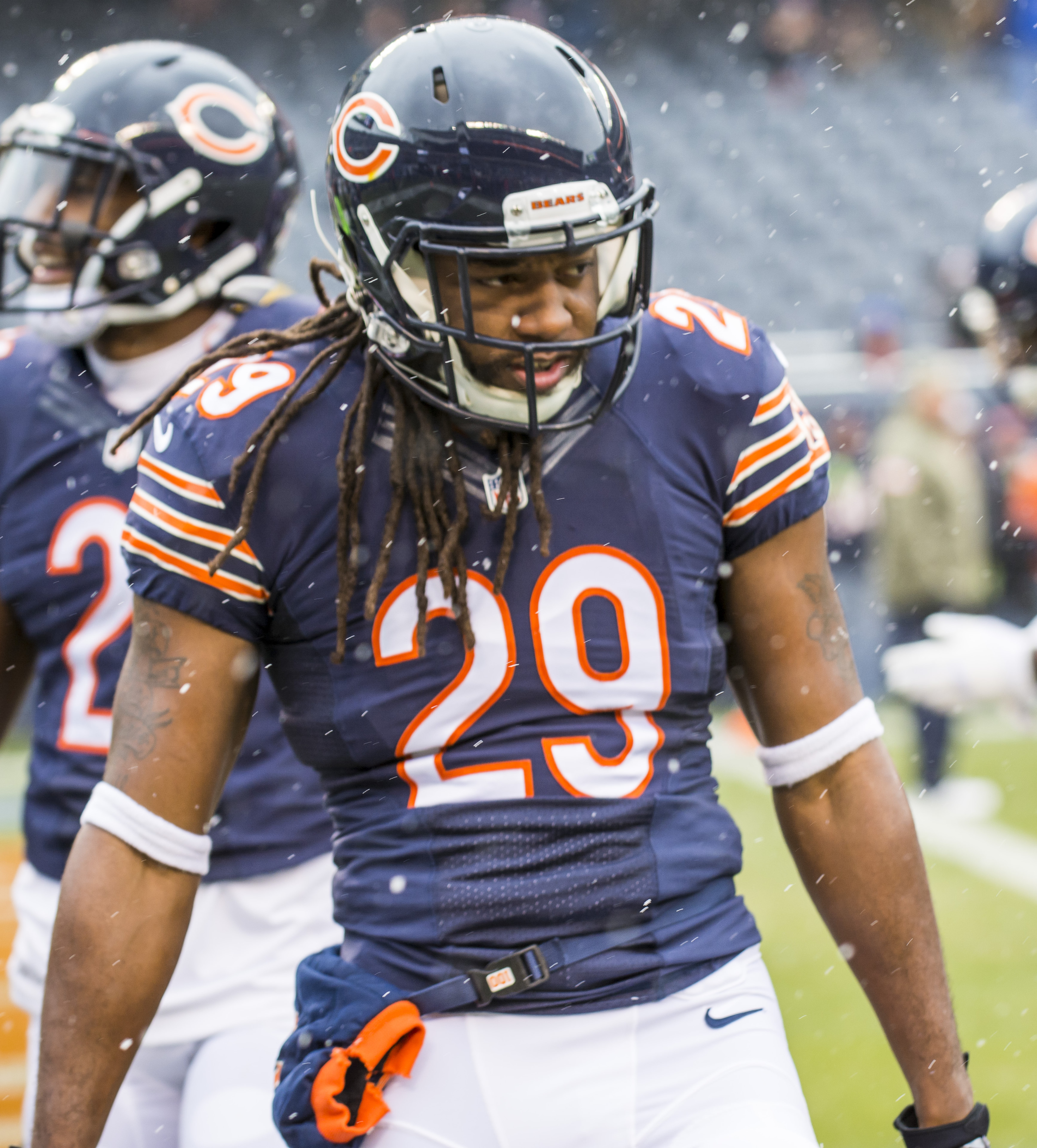 Chicago Bears safety, Danny McCray, in a game against the Minnesota Vikings on November 16, 2014.